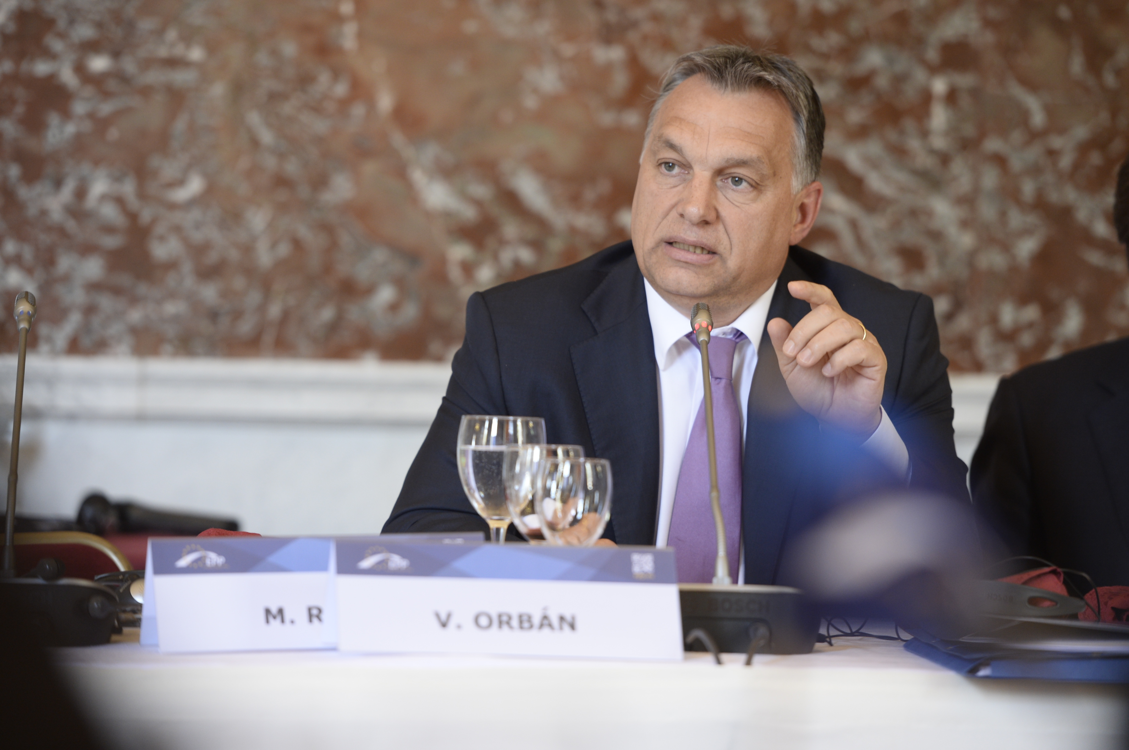 EPP Summit, Brussels, June 2015; Viktor Orbán